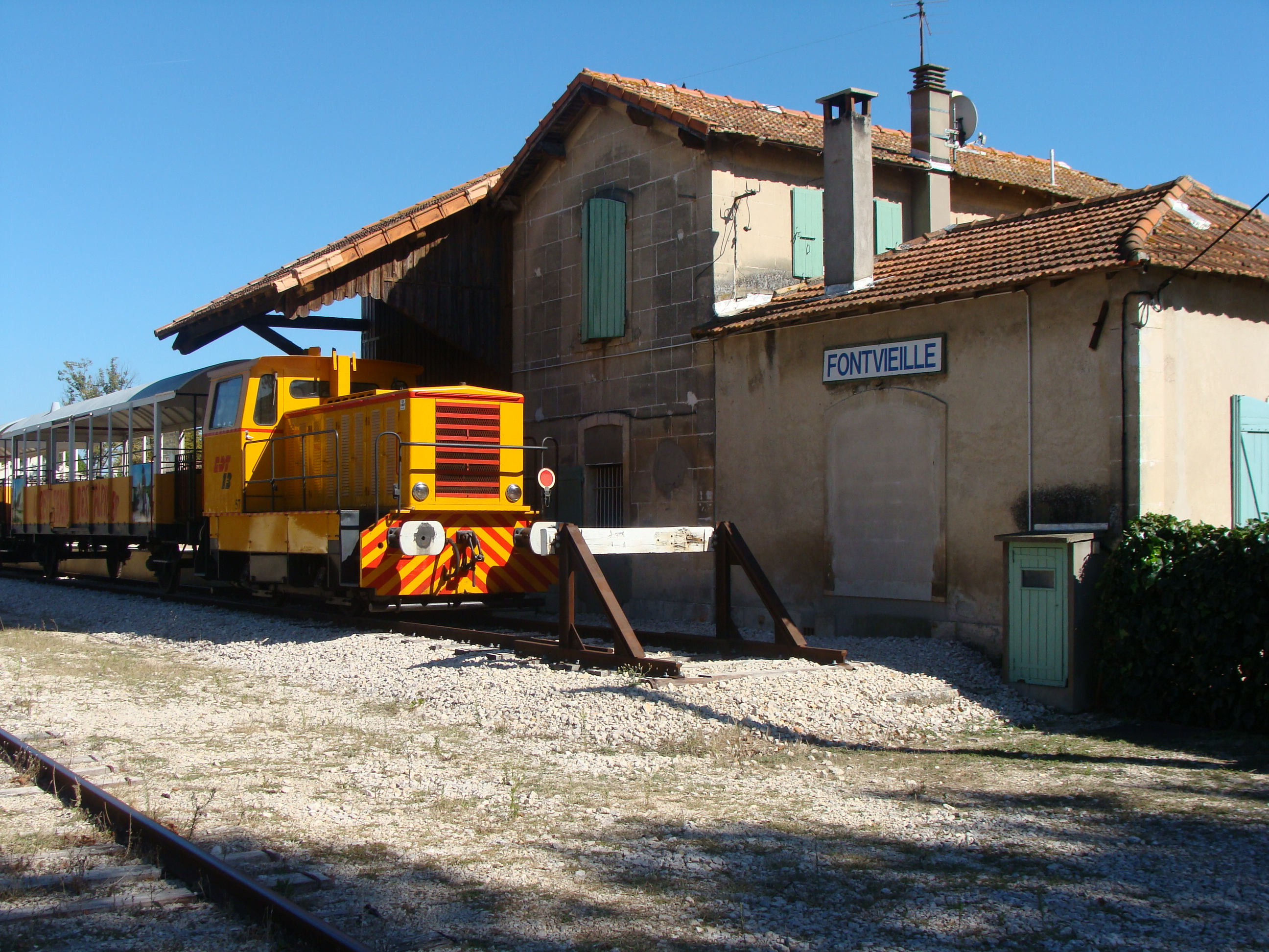 Train station in Fontvieille, Provence, France